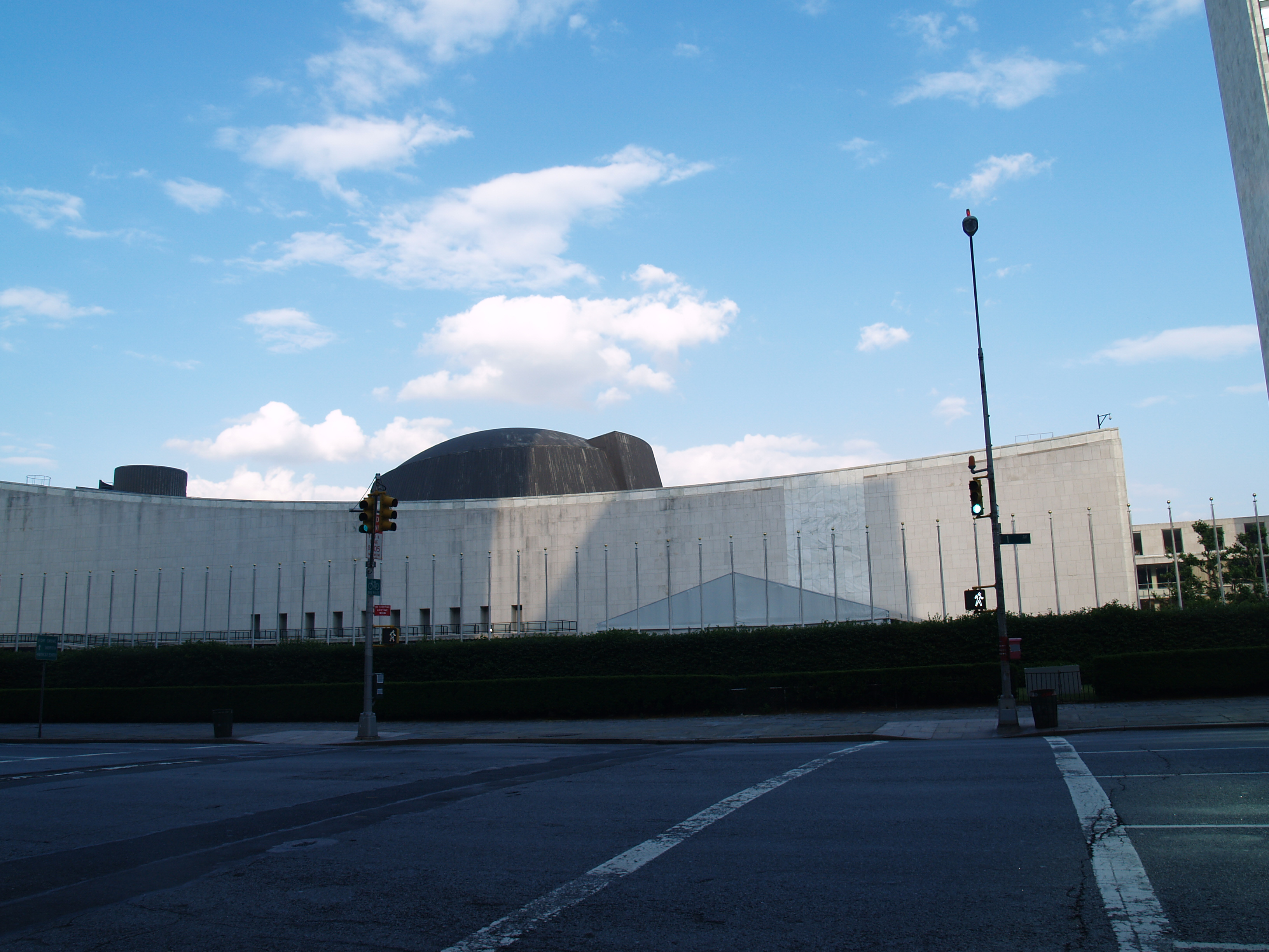 The UN General Assembly building, New York.